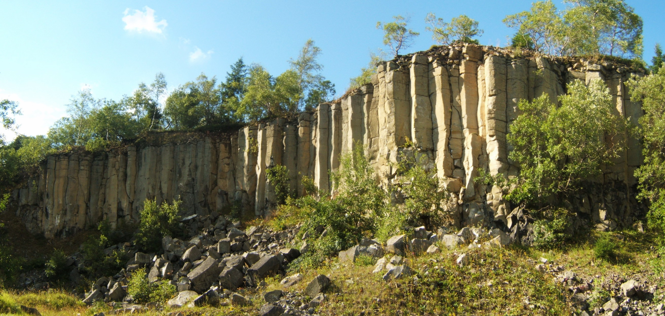 Basalt prismas in the natur reservat Ryžovna (Seifen), Ore Mountains, CZ